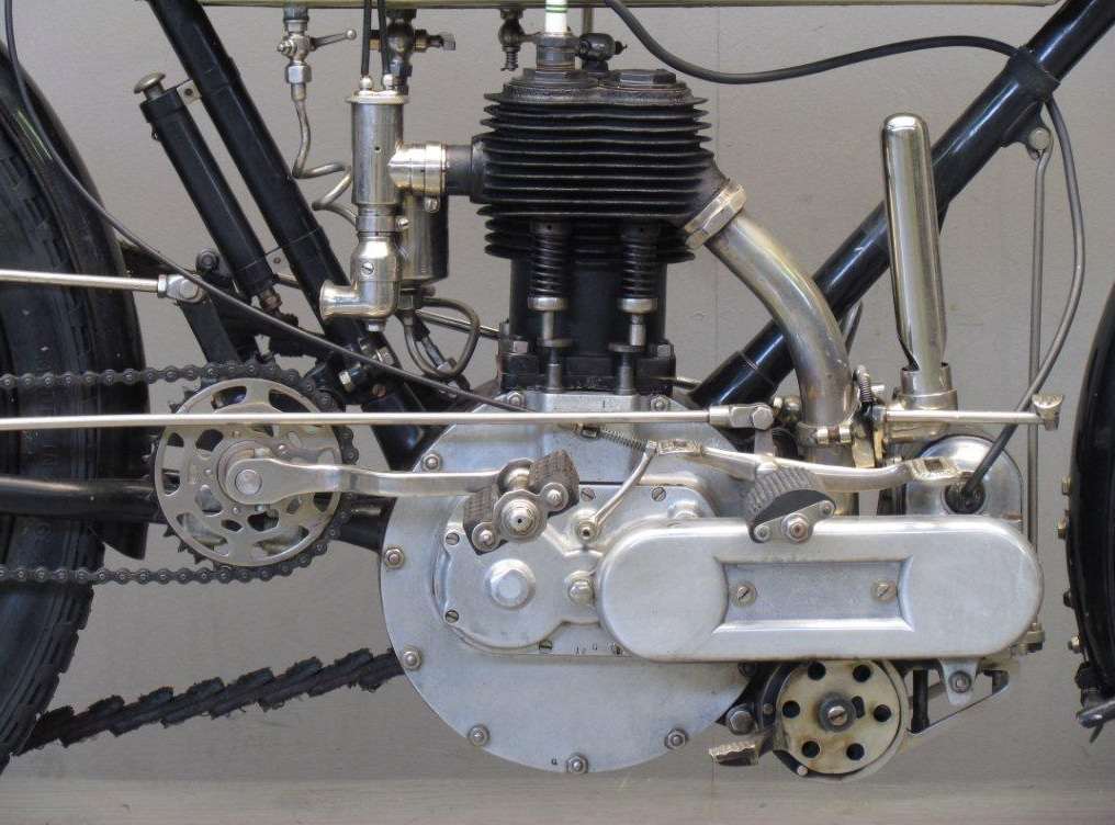 1912 554cc Bradbury engine with pedal-operated exhaust whistle